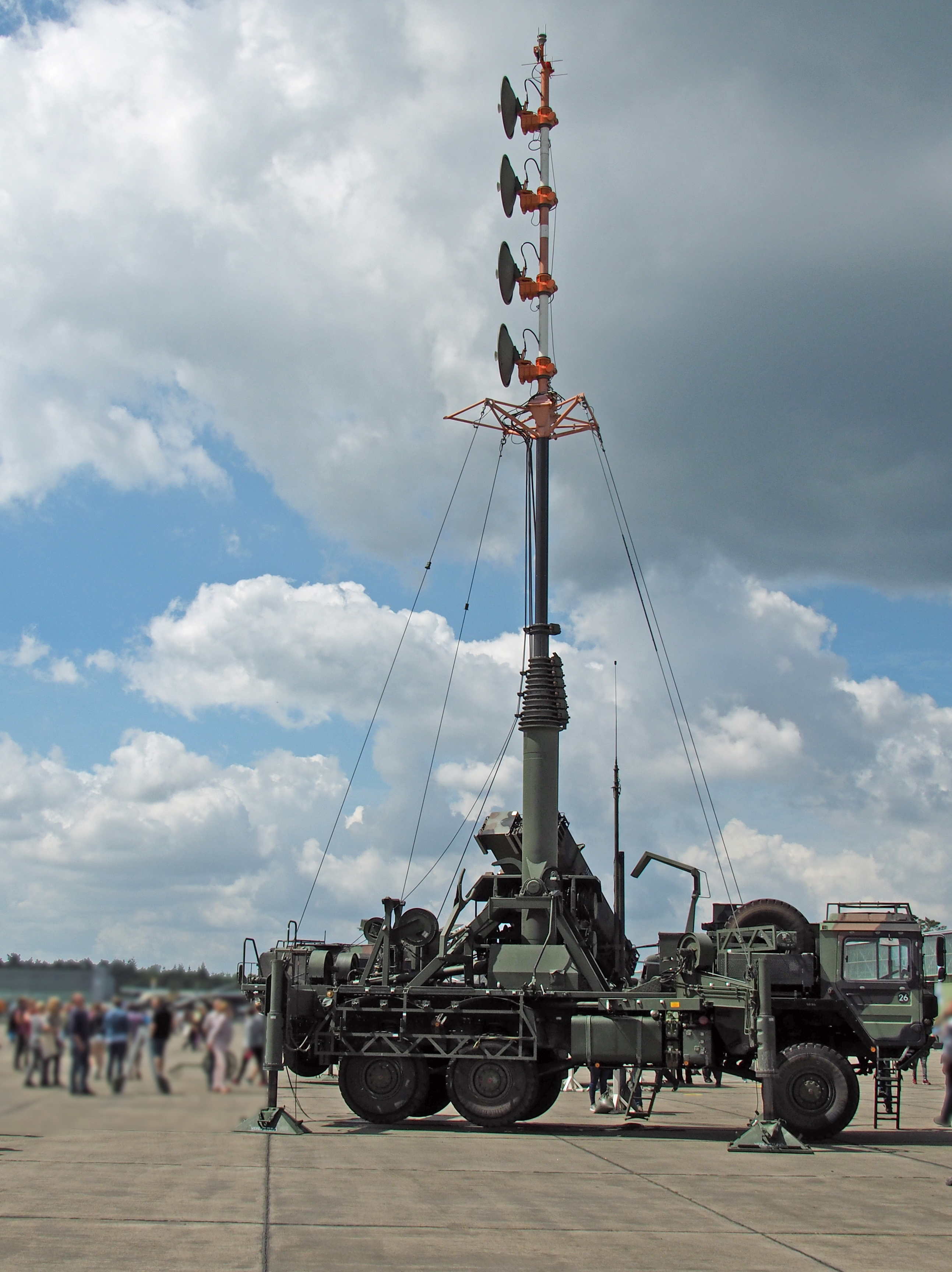 Patriot Air Defence Missile System – Antenna Mast Group (AMG)